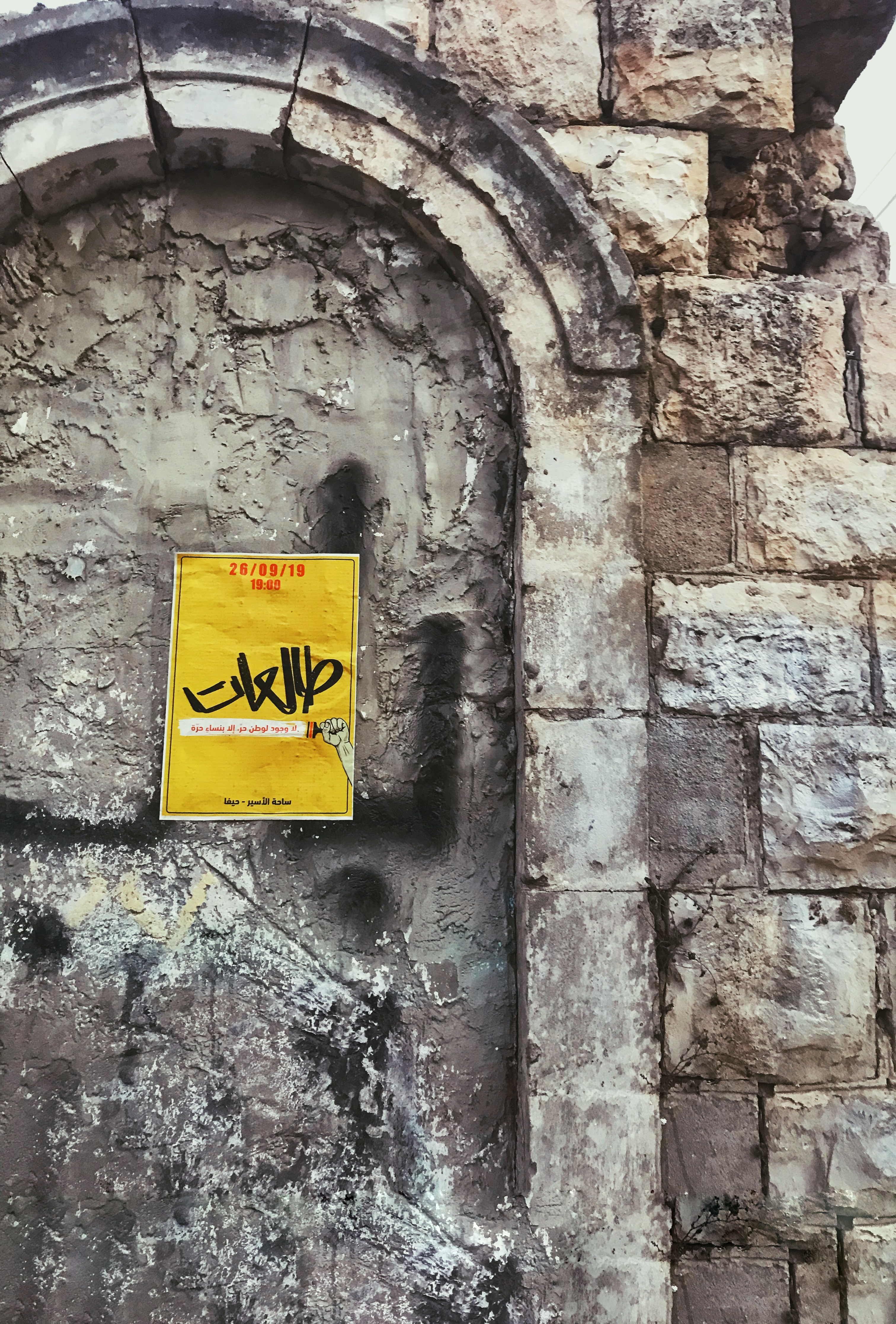 ملصق لمظاهرة طالعات في حيّ الحليصة في حيفا